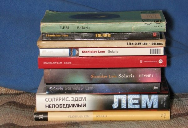 A few editions of Solaris (bottom to top): Polish, Russian, English, German, Italian, Spanish, Hungarian, Turkish, Czech.